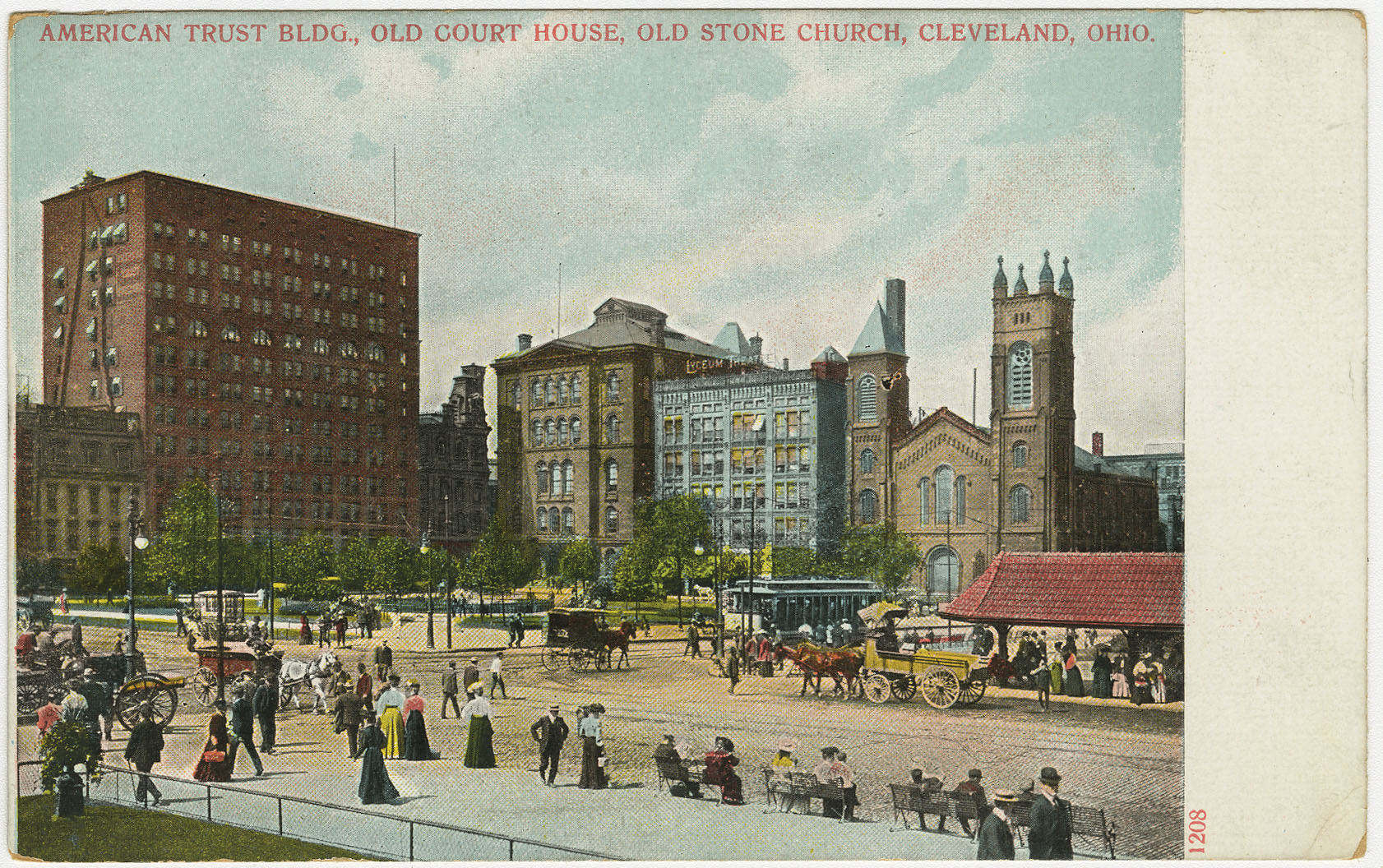 Old Stone Presbyterian Church in Cleveland, Ohio from a pre-1923 postcard From RG 428, Postcard Collection, Presbyterian Historical Society, Philadelphia, Pennsylvania.